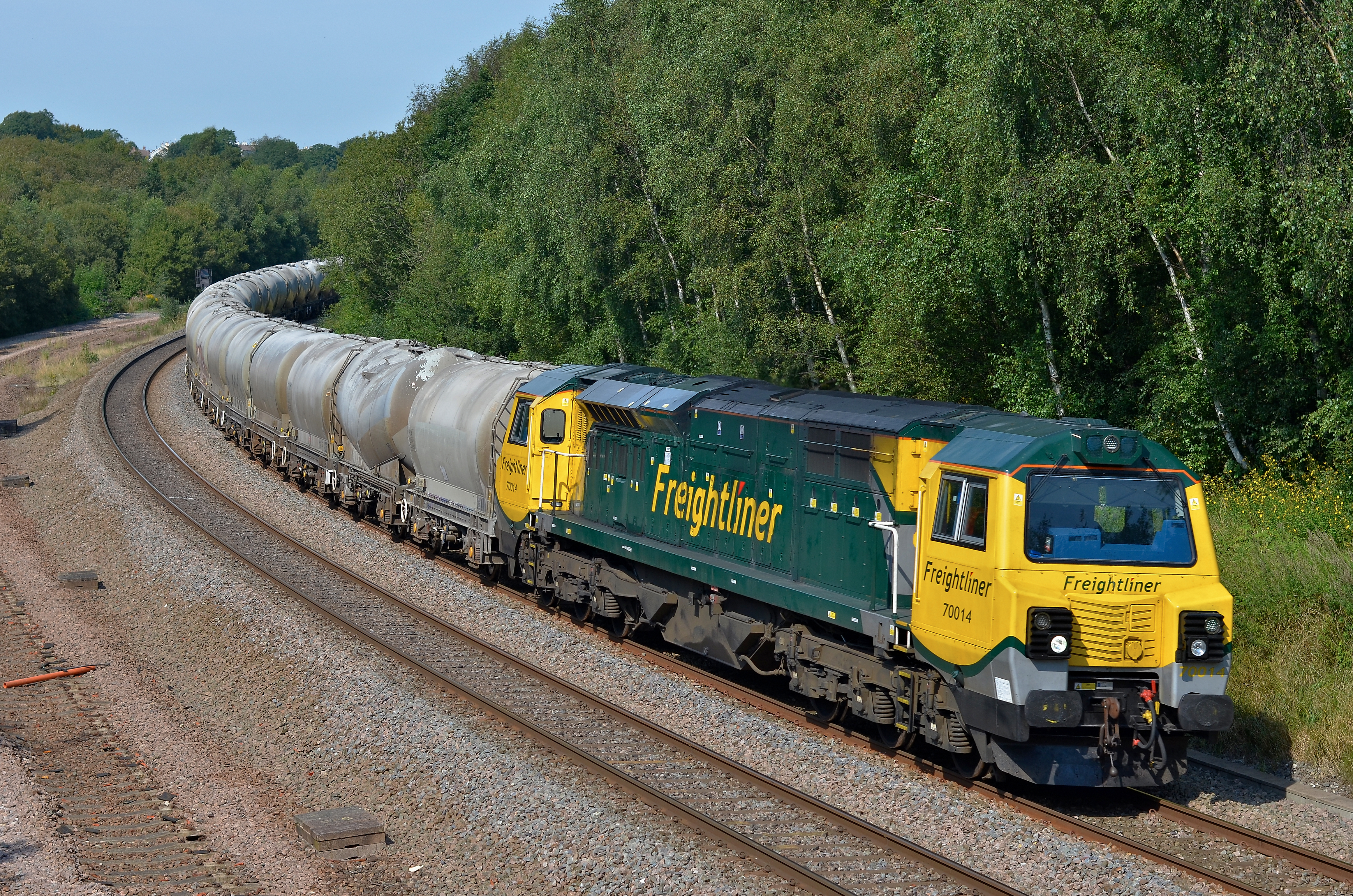 70014 passes North Wingfield working 6L87 Earles Sidings - West Thurrock loaded cement tanks